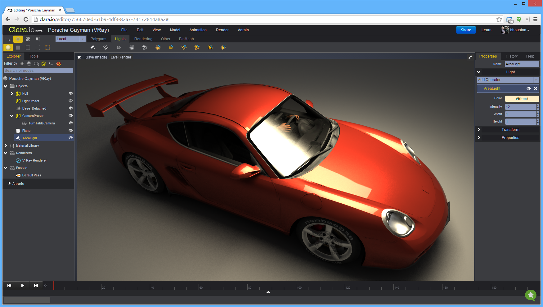 A screenshot of the application with a V-Ray rendering of a Porsche Cayman car 3D model.